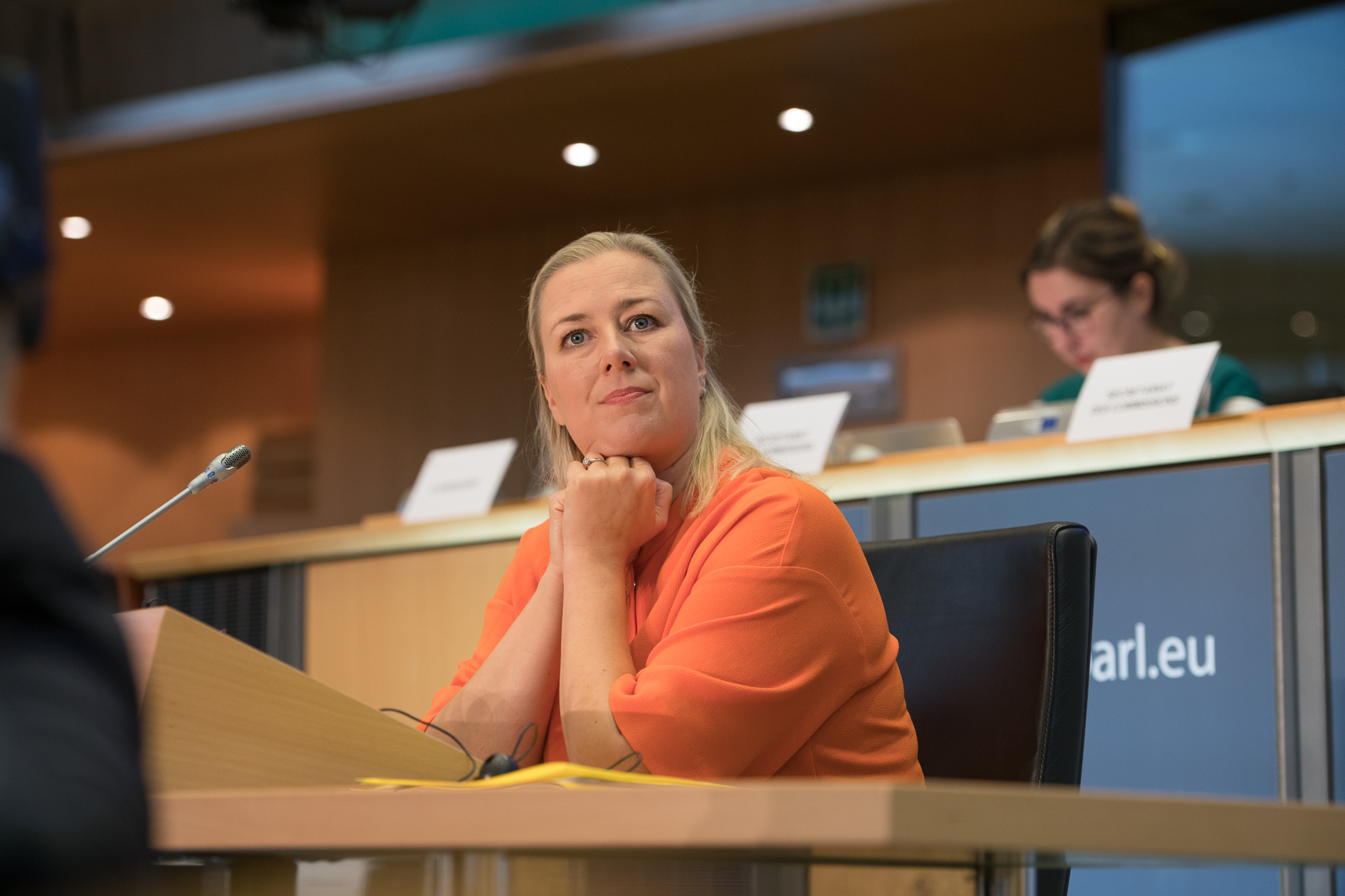 Before the European Parliament can vote the new European Commission led by Ursula von der Leyen into office, parliamentary committees will assess the suitability of commissioners-designate. On 23-26 May, more than 200,000,000 people in 28 EU countries went to the polls to elect members of the European Parliament, giving them a strong democratic mandate, including voting into office the new European Commission and examining the competencies and abilities of its commissioners-designate. Elected members of the European Parliament will also listen to their ideas and will assess their willingness to take concrete actions on the issues that Europeans care about. Each candidate commissioner is invited for a live-streamed, three-hour hearing in front of the committee or committees responsible for their proposed portfolio. The hearings will take place between Monday 30 September and Tuesday 8 October. This photo is free to use under Creative Commons license CC-BY-4.0 and must be credited: "CC-BY-4.0: © European Union 2019 – Source: EP". No model release form if applicable. For bigger HR files please contact: webcom-flickr(AT)